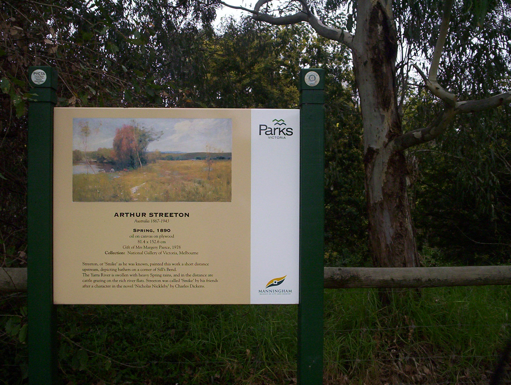 one of the Artists trail signs at Heidelberg, this one marking a work by Arthur Streeton.